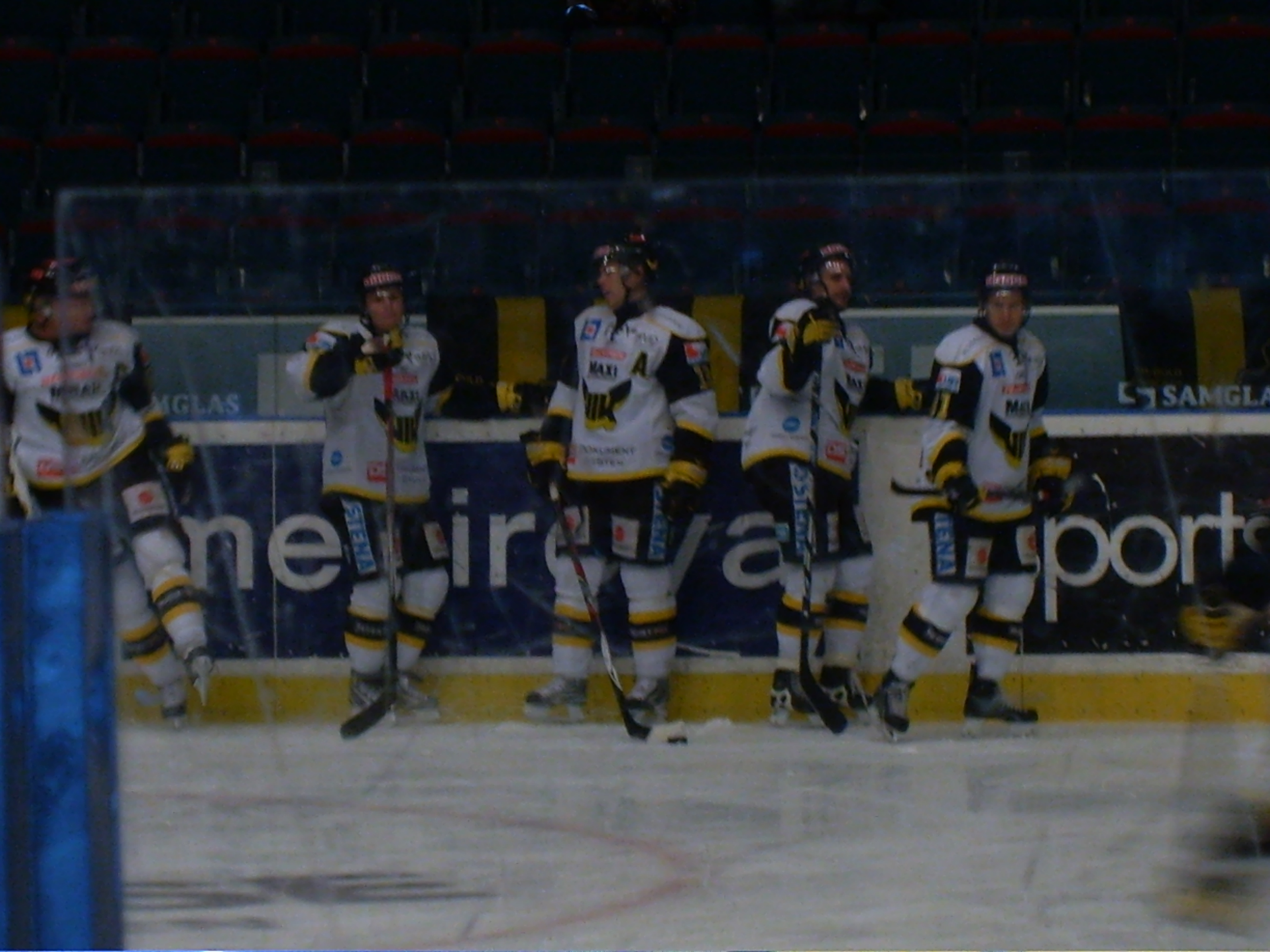 Ice hockey players from Västerås Hockey